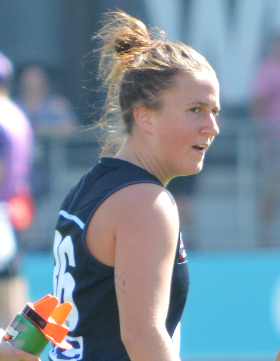 Jayde Van Dyk with Carlton during a preliminary final against Fremantle at Ikon Park in March 2019.